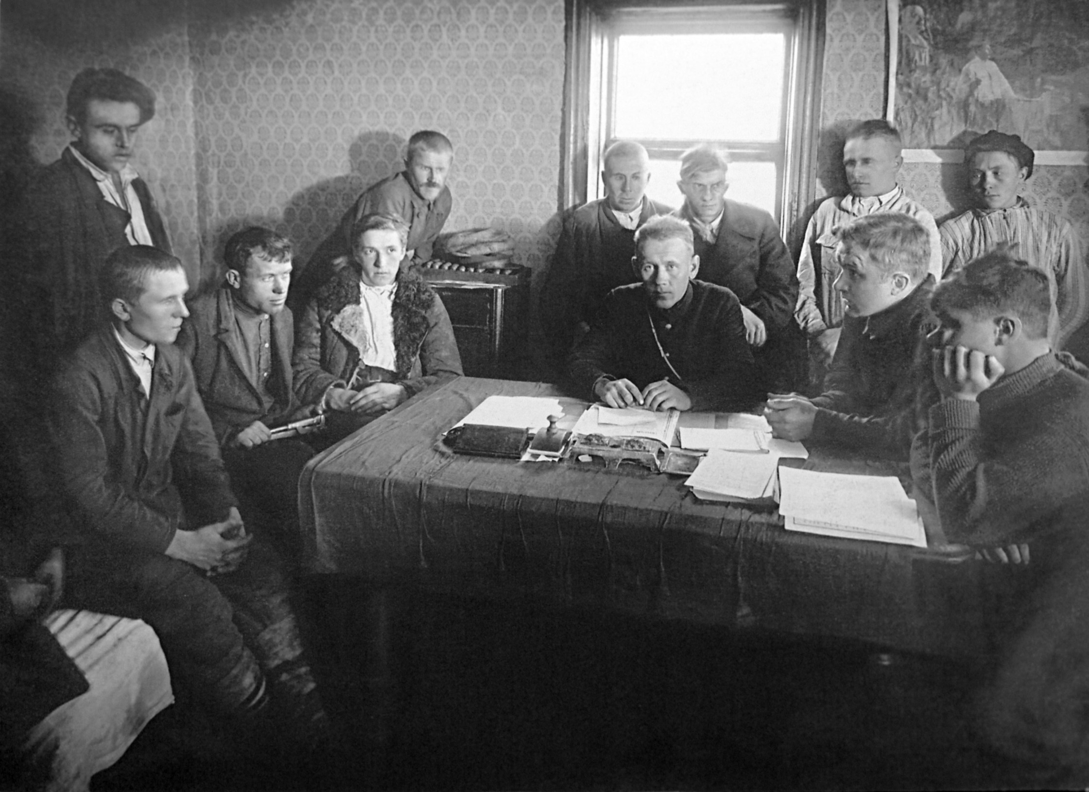 Assistant Chief of the Political MTS Volkov (center) at the Komsomol meeting on the farm "work path". Solenetsky district, Novgorod region, 1934.